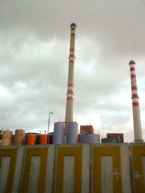 Chimney of Žilinská tepláreň, Žilina/Slovakia